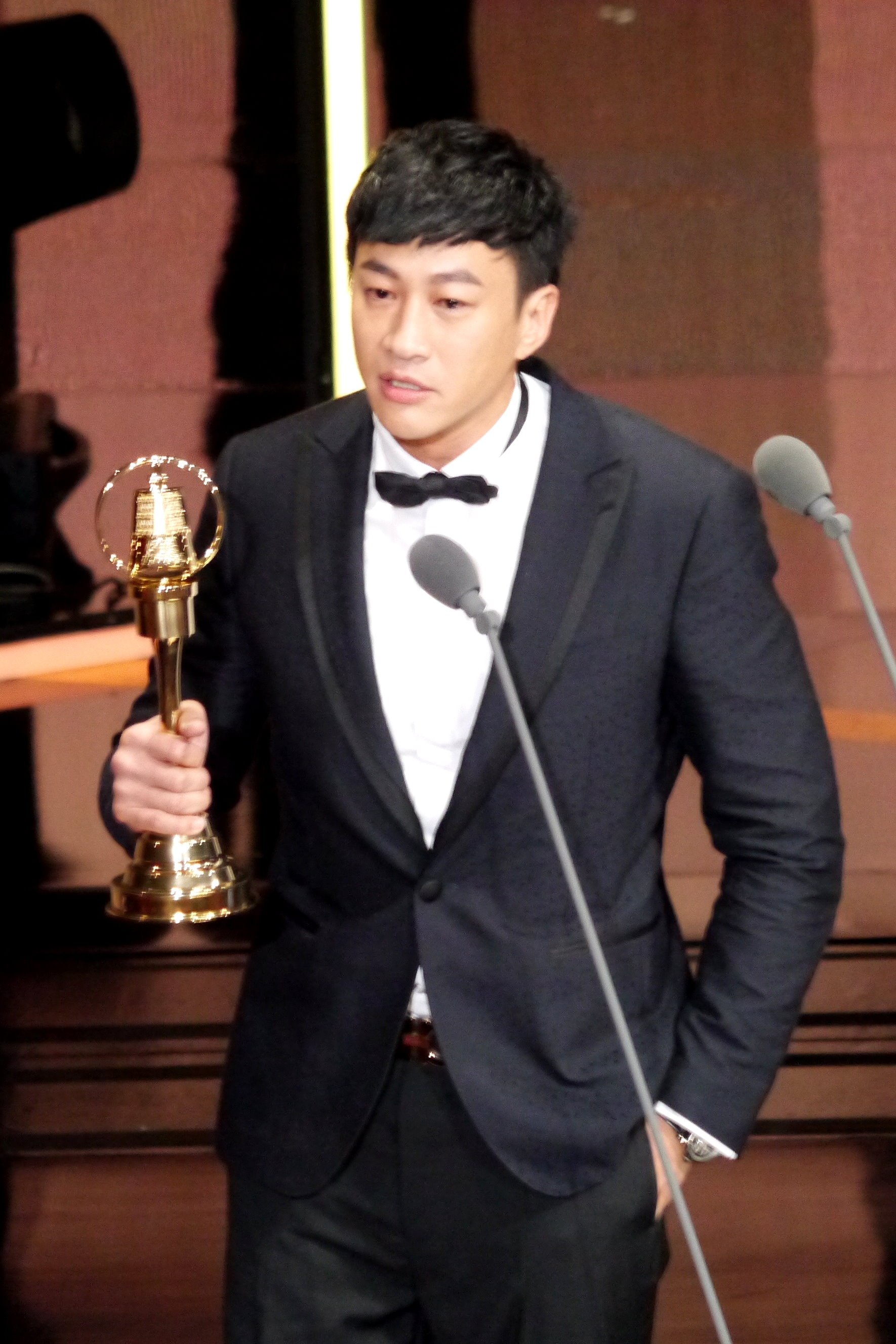 Peter Ho wins Director of Drama in 2018 Golden Horse Awards